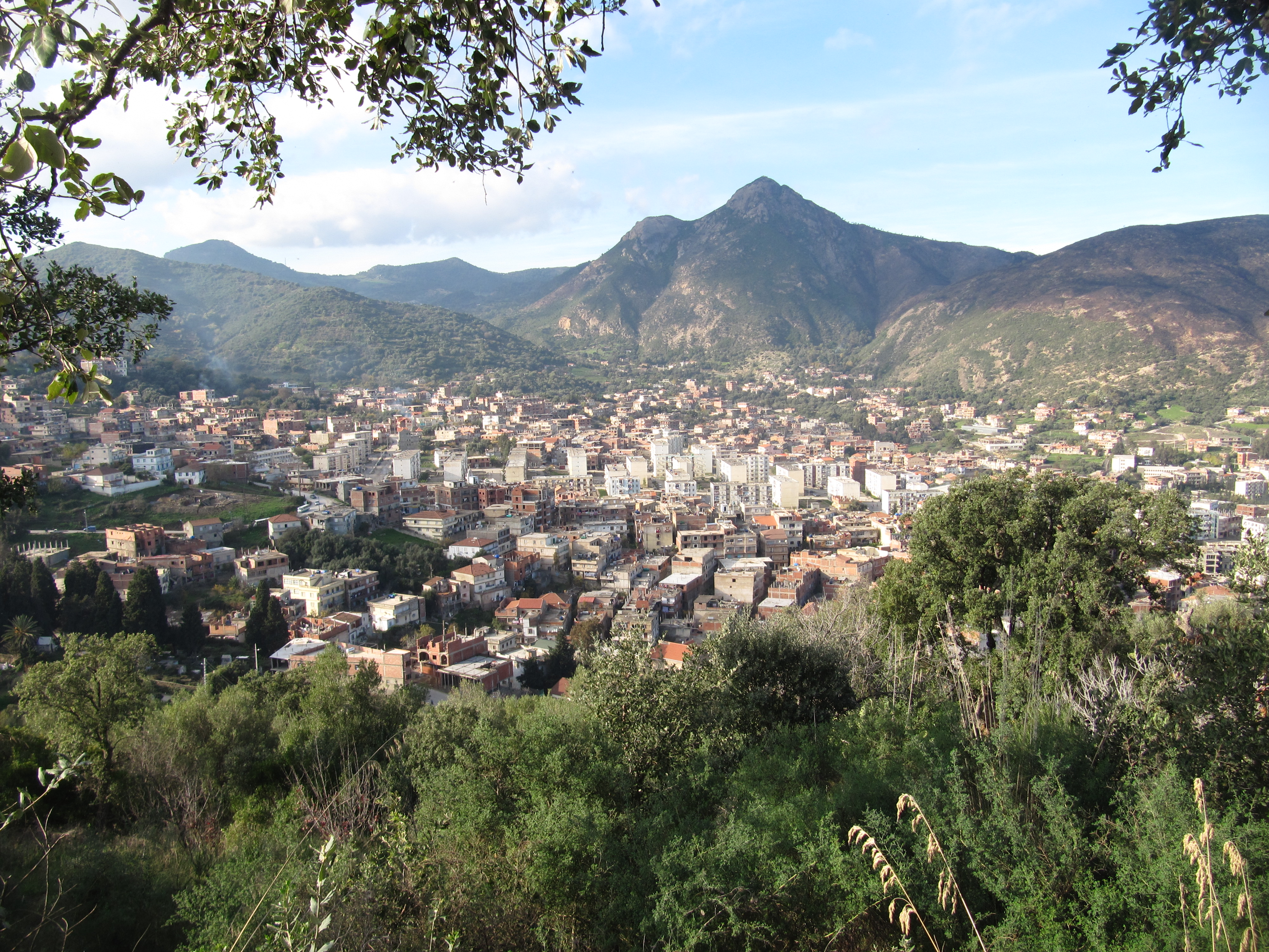 the whole city of Collo